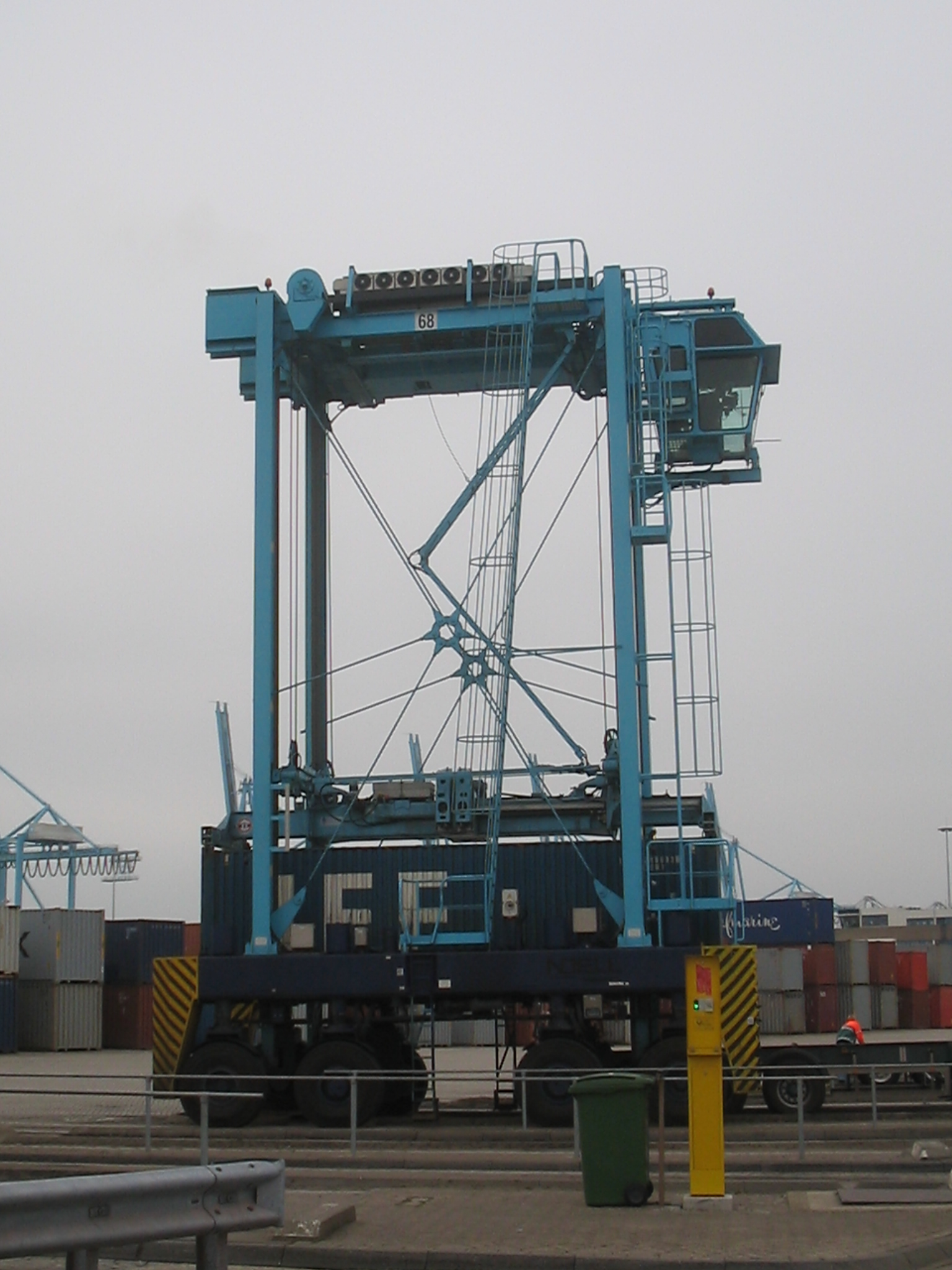 Containerlift / straddle carrier (Rotterdam harbour)